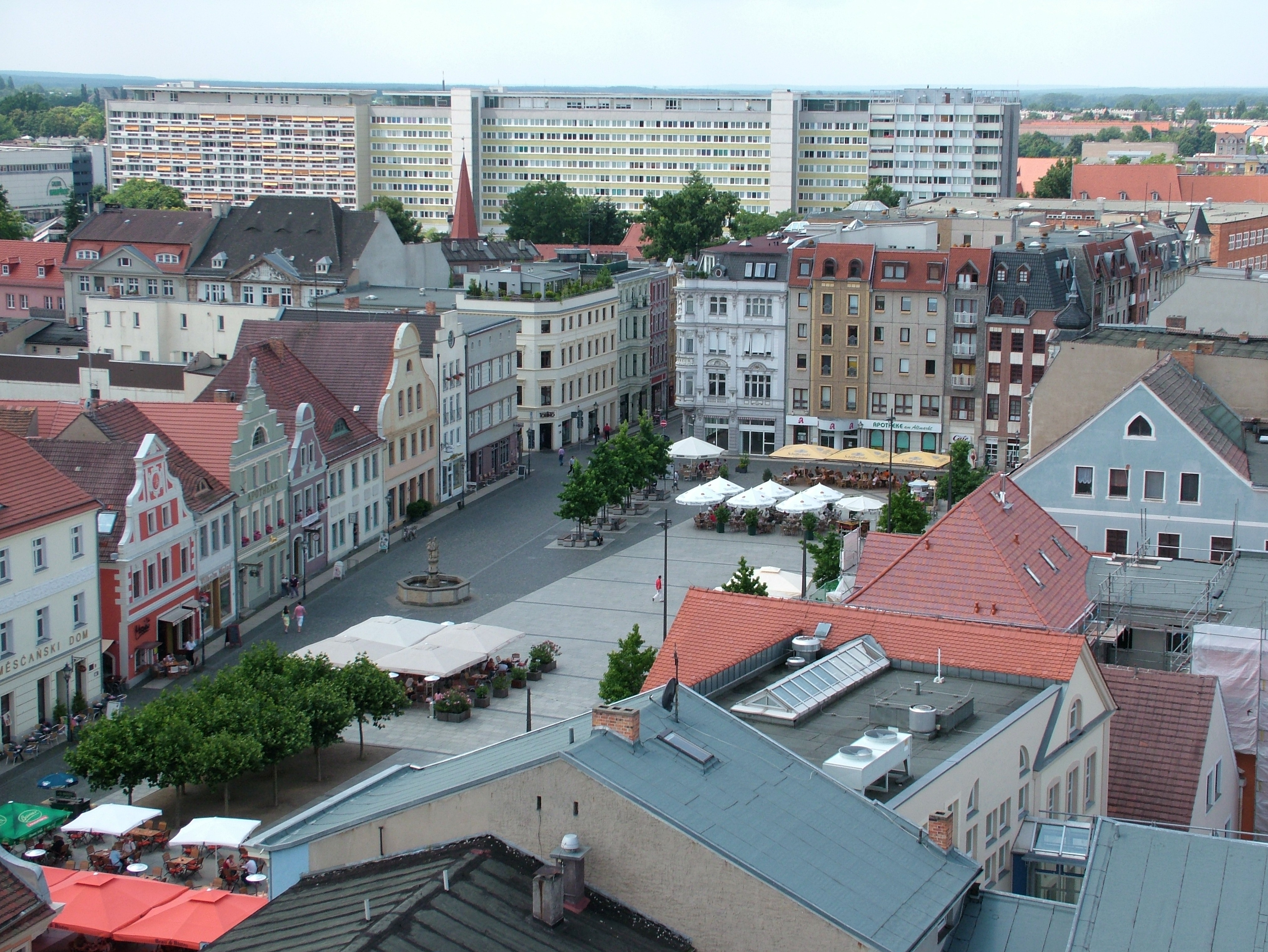 Cottbus, Market